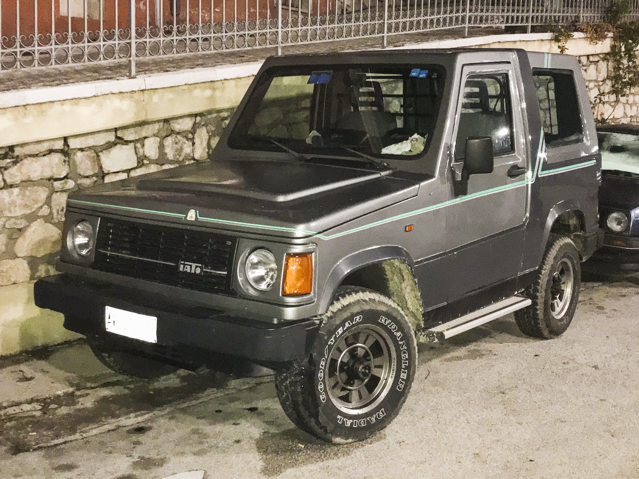 IATO 4x4 1.9 TD in Nusco, Avellino